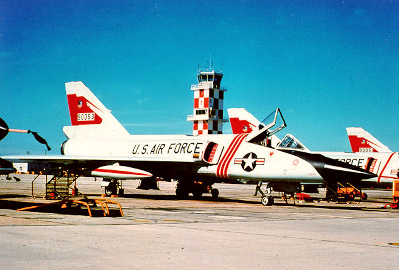 87th Fighter-Interceptor Squadron F-106s on the flightline at K. I. Sawyer Air Force Base, Michigan, 1976. Note the ARBC logo on the nose of 59-0053